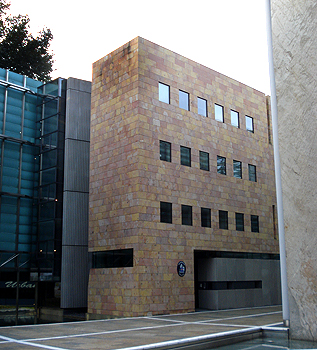 Embassy of Iceland, Berlin